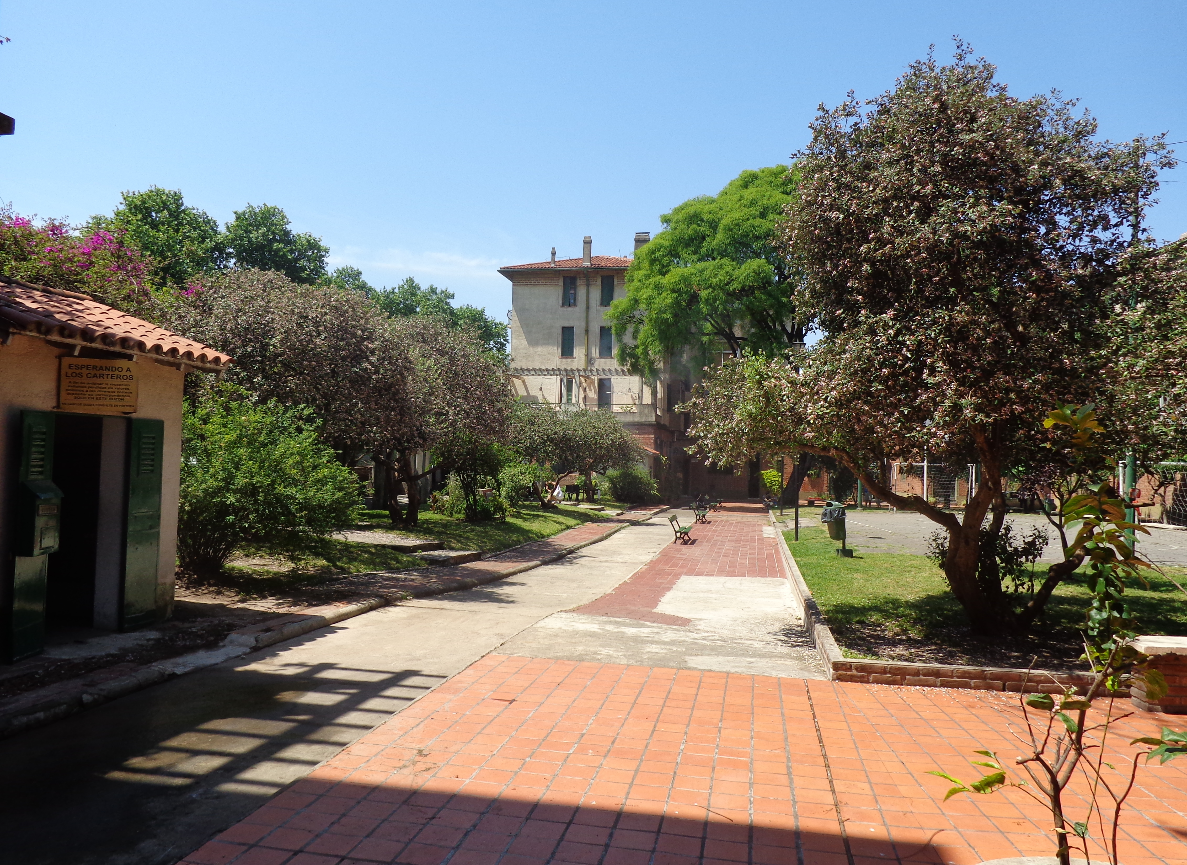 Parque Los Andes House Collective, a micro neighborhood built by the City of Buenos Aires between 1926 and 1928 in Chacarita, Buenos Aires, Argentina.